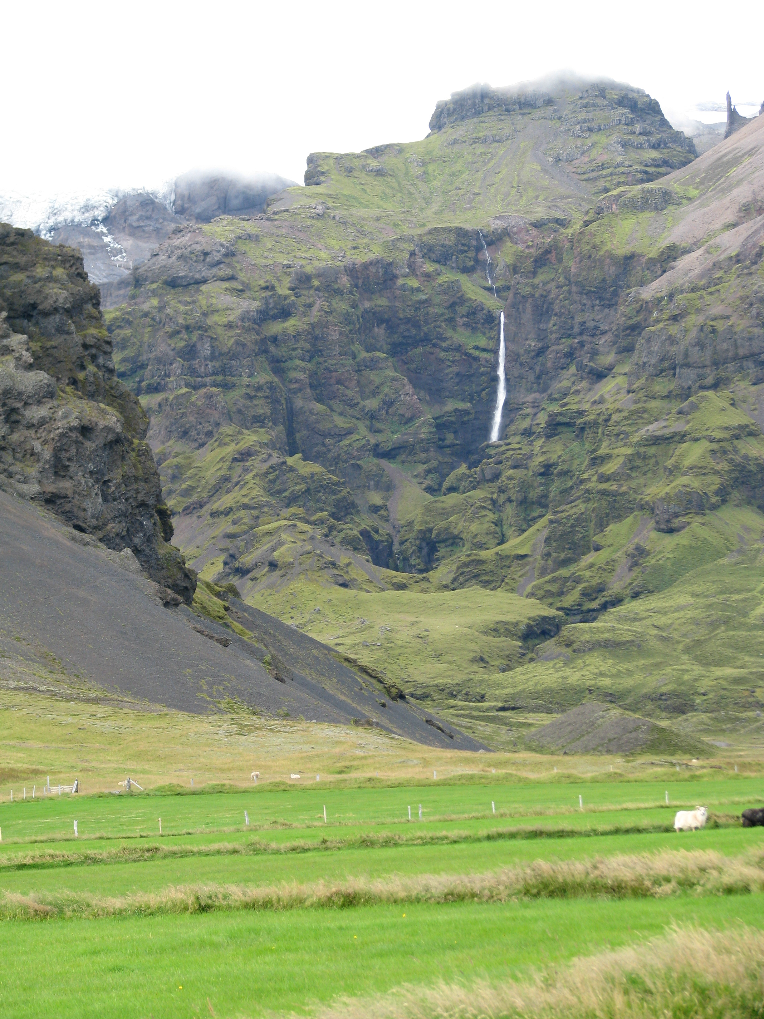 Stigárfoss, waterfall,Iceland